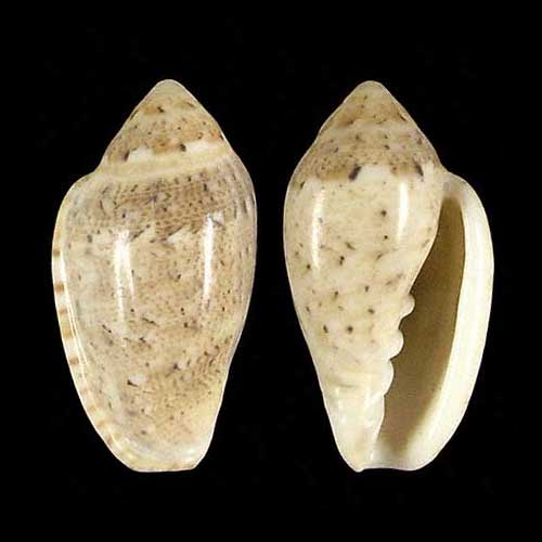 Species: Marginella piperata Hinds, 1844 Distribution: False Bay to Natal, South Africa data: dived 35-38m Jeffreys Bay, South Africa